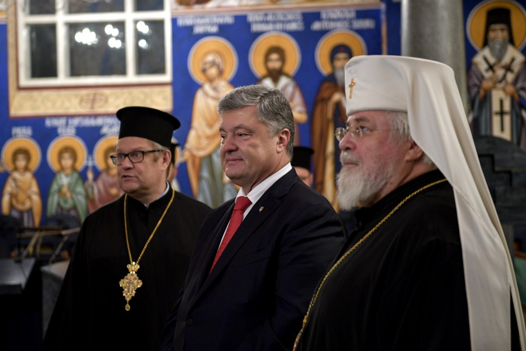 President of Ukraine met with the Primate of the Finnish Orthodox Church